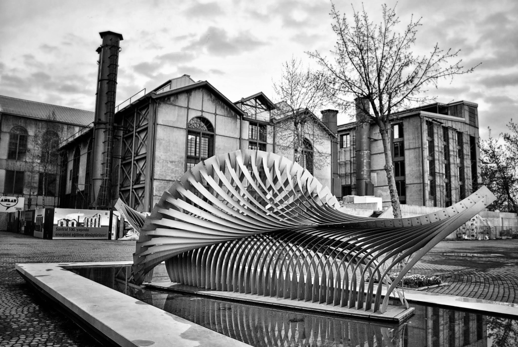 500px provided description: Bilgi [#travel ,#light ,#buildings ,#istanbul ,#tram ,#turkey ,#istiklal ,#outdoor ,#architecture ,#building ,#white ,#history ,#black ,#trip ,#photography ,#student ,#blackandwhite ,#indoor ,#university ,#blanco ,#blanc ,#erasmus ,#childreen ,#follow ,#turchia ,#childwood ,#bilgi]